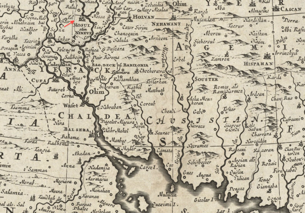 Detail of map (showing location of Mosul): Nova Persiae Armeniae Natoliae et Arabiae Author: Wit, Frederik de Publisher: Wit, Frederik de Date: 1680 Scale: [ca. 1:9,000,000]